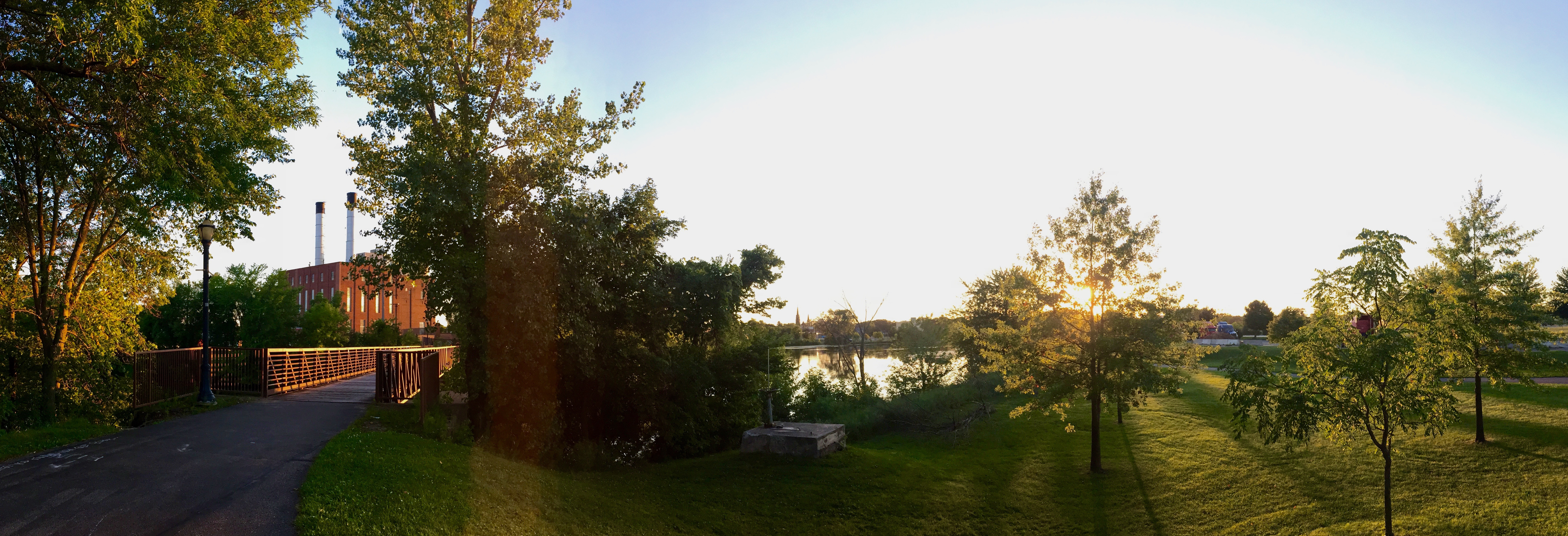 The Downtown Power Plant, Mill Pond, and Horace Austin Park in Austin, Minnesota